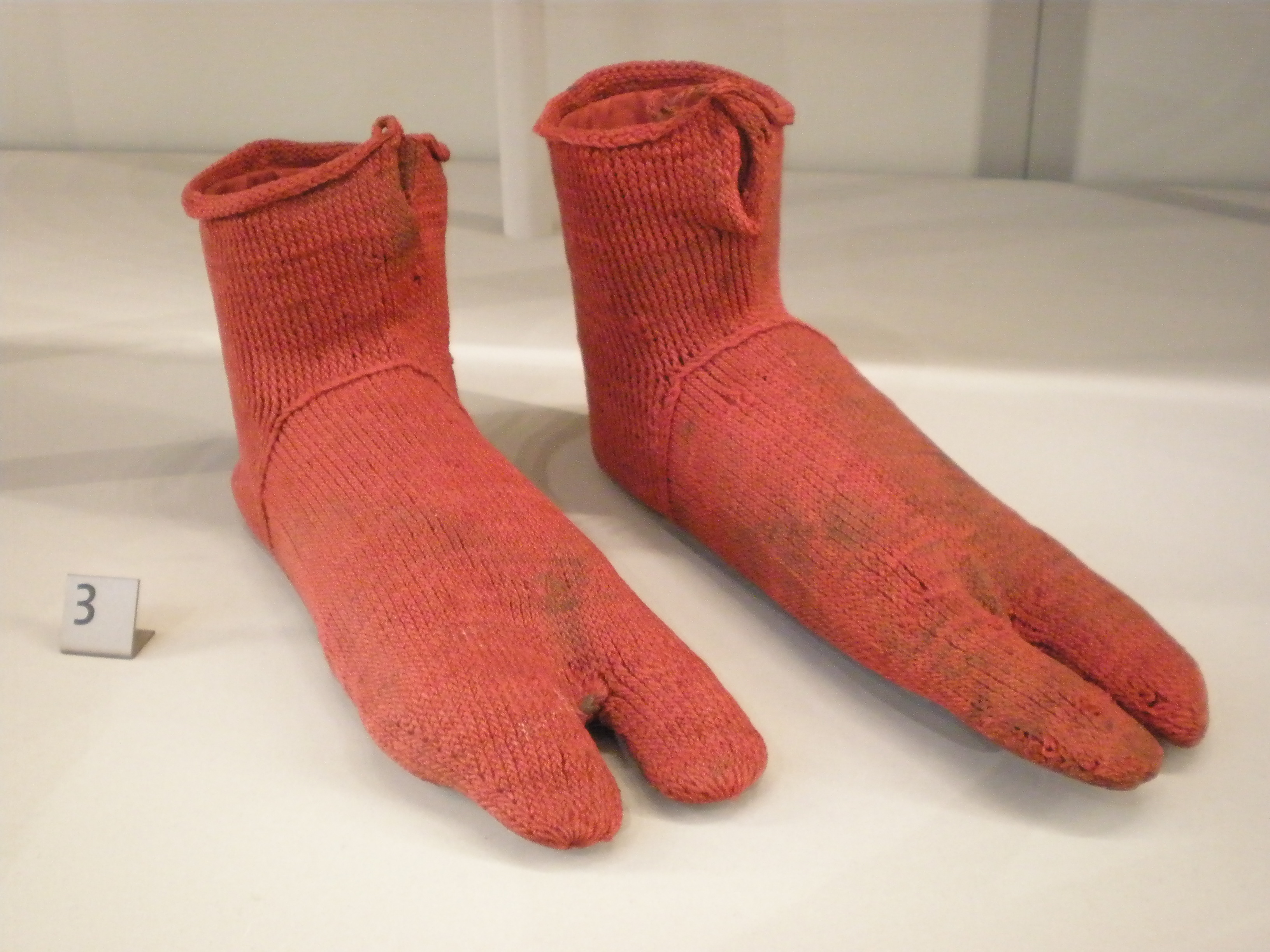 Pair of socks 300-500 Egypt Wool (knitted) These socks are the earliest knitted items in the V&A's collection. Made in 300-499 AD, they were excavated in Egypt at the end of the 19th century. They have a divided toe and are designed to be worn with sandals. The socks are knitted in stocking stitch using three-ply wool and the single-needle technique. This type of knitting is a slow technique more like sewing. It was a forerunner of the faster method of knitting with two or more needles. Textile historians often find it difficult to tell whether early knitted objects are made using a single needle, as here, or using more than one needle, as the finished articles are so similar in appearance. Given by Robert Taylor Collection ID: 2085&A-1900 This photo was taken as part of Britain Loves Wikipedia in February 2010 by David Jackson.